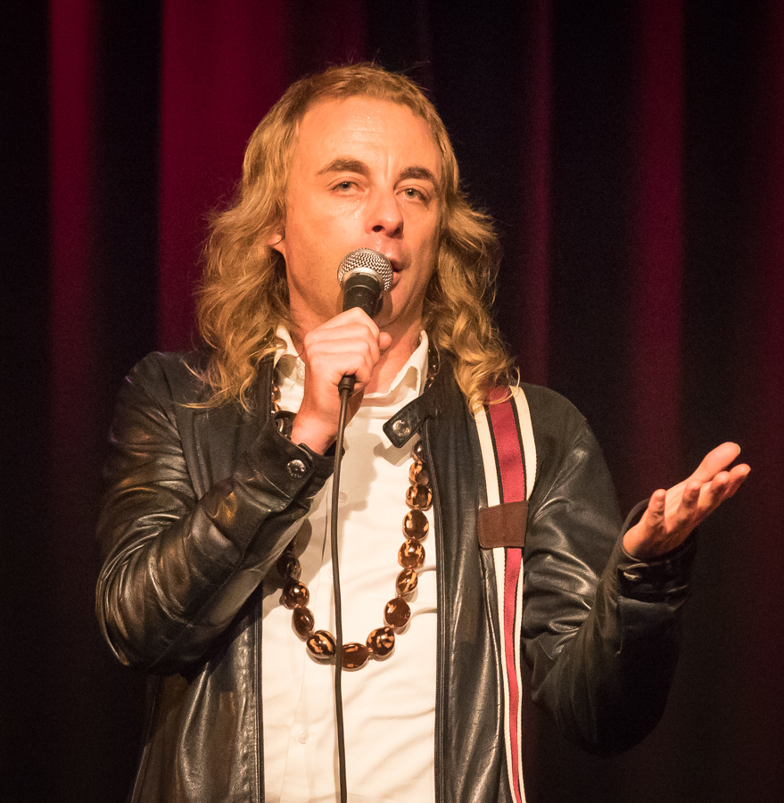 Paul Foot on the stage at Parkteatret. The comedy event took place on 27. January 2017 in Oslo as part of Crap Comedy festival 2017. Lineup: Paul Foot (comedian) Eddie Pepitone (comedian)